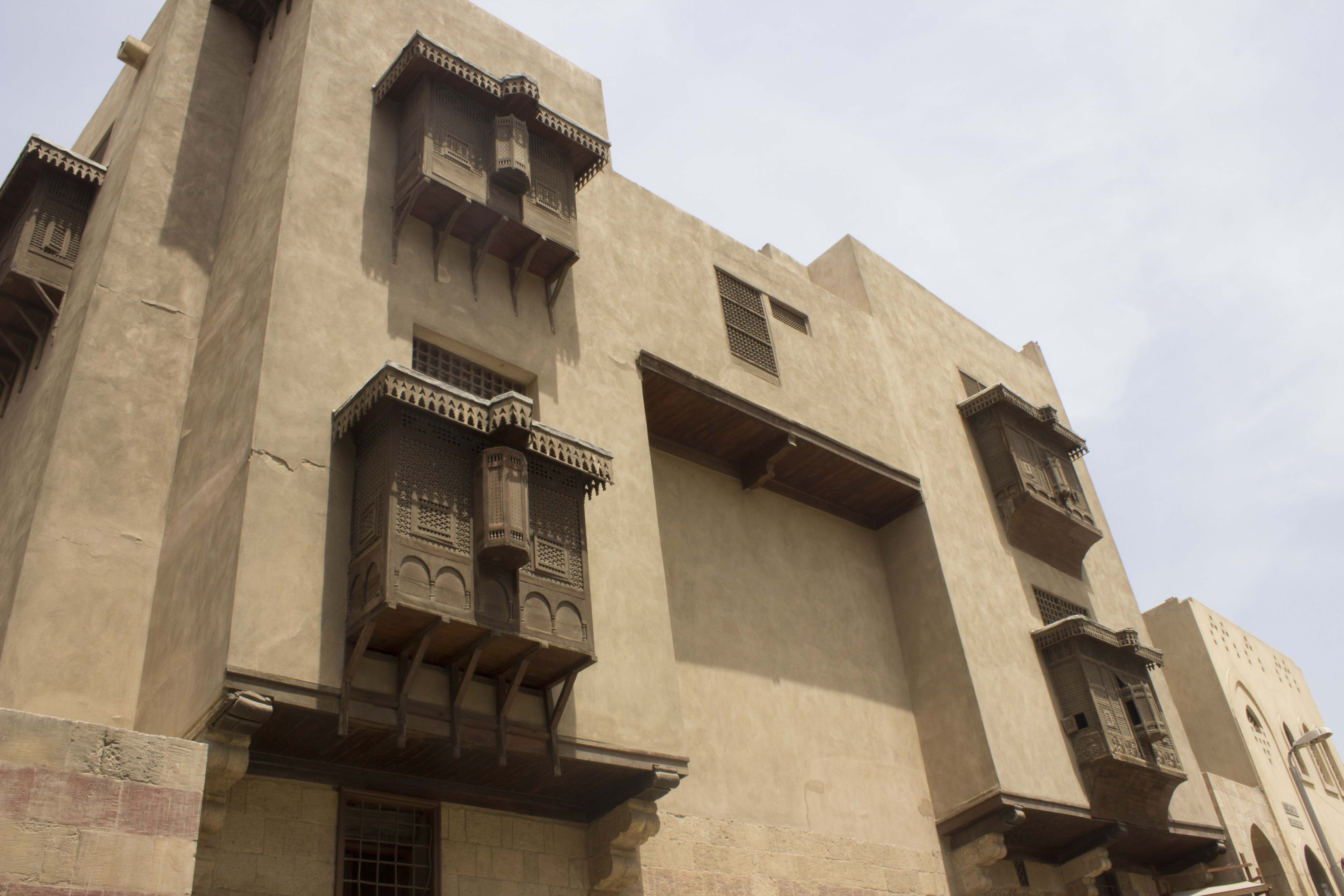 Islamic Cairo بيت مصطفى جعفر بشارع المعز